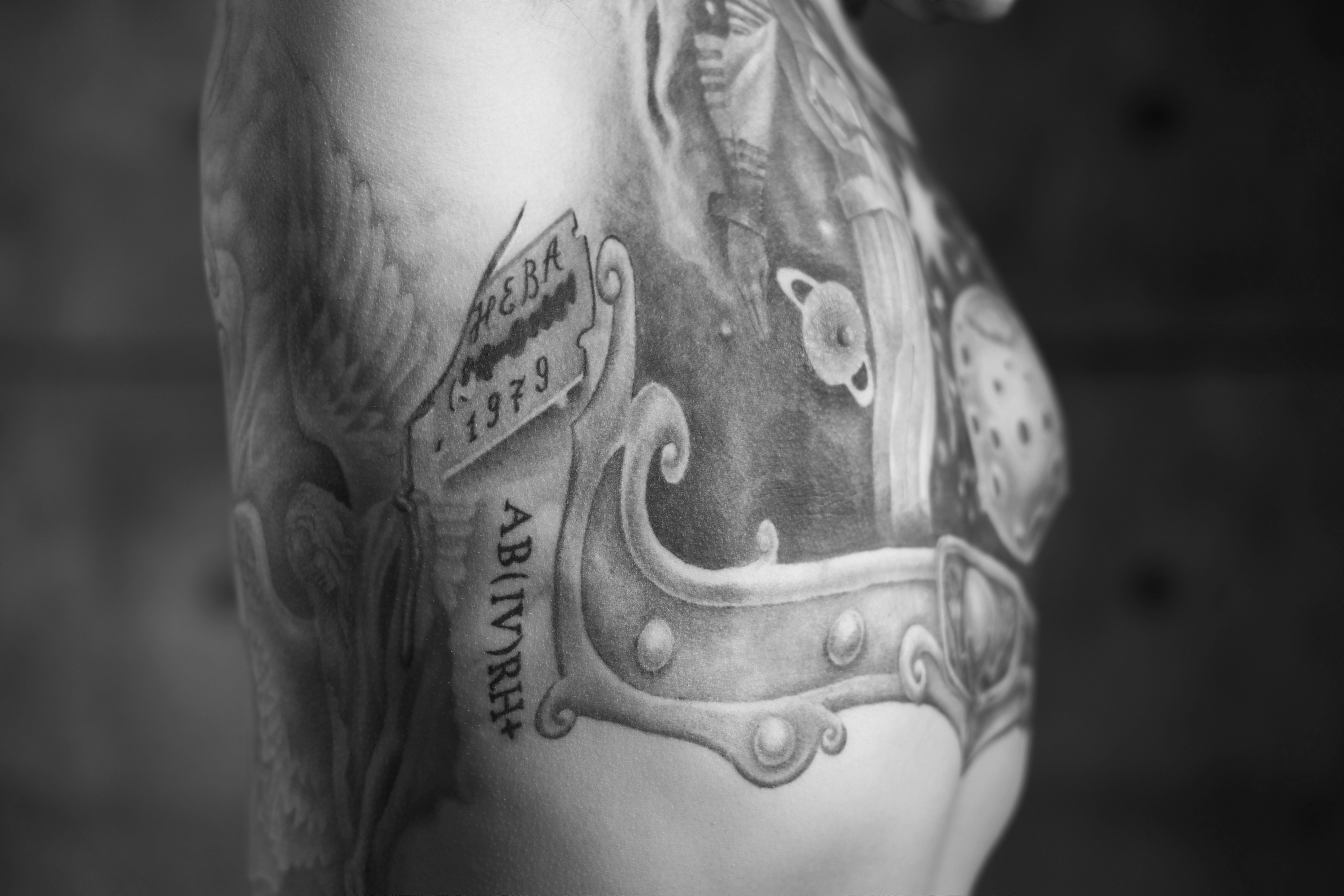 Armpit tattoo. Razor "NEVA" (Soviet brand originated from the city of Leningrad (St. Petersburg)) and blood type written under.